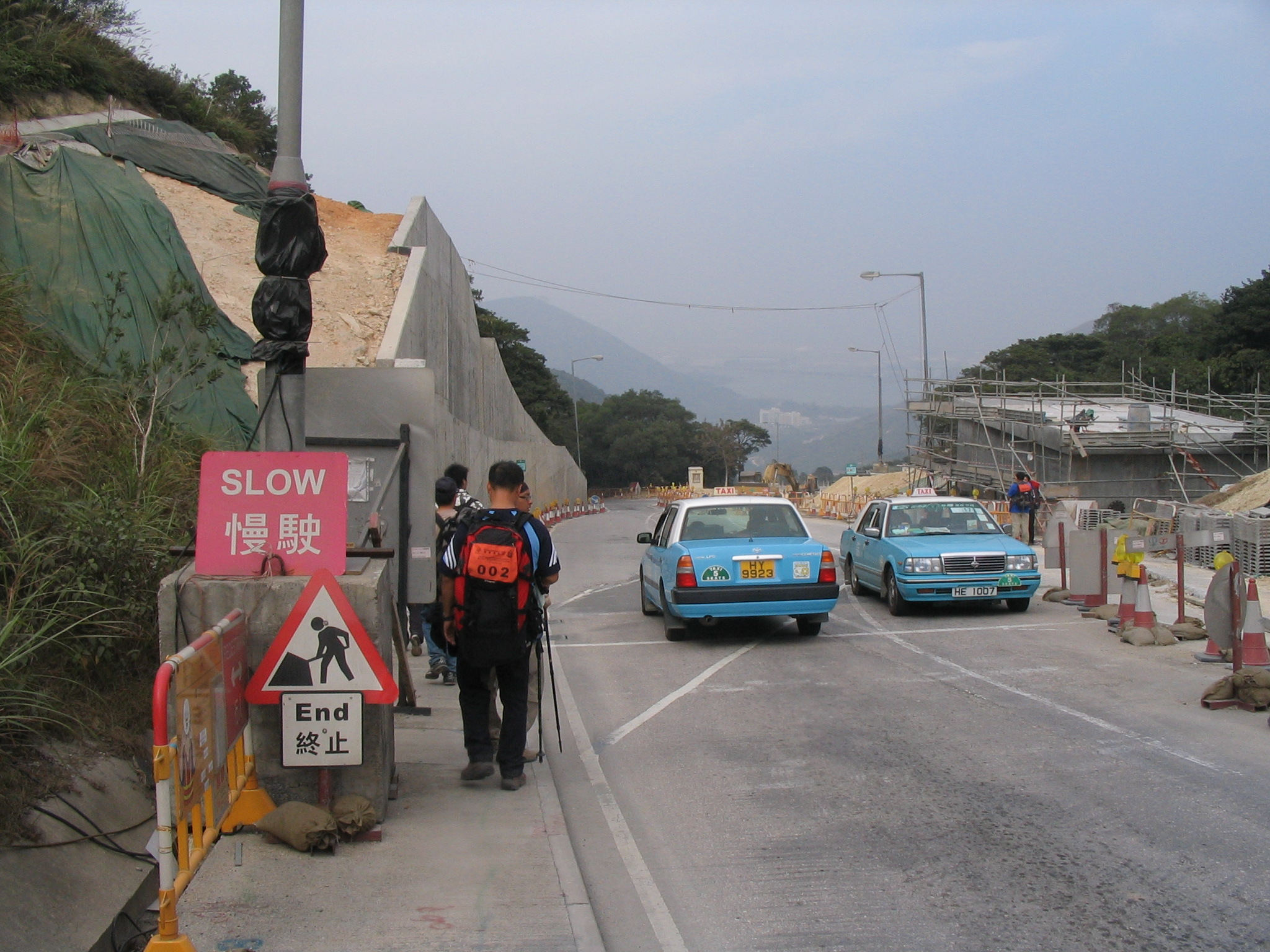 Photo of Tung Chung Road